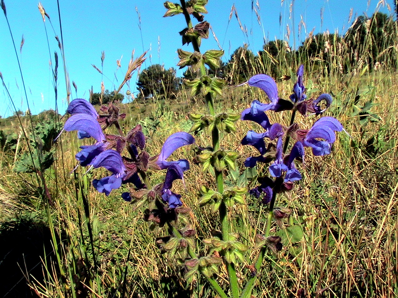 Salvia pratensis. In la Bòfia, Guixers (Solsonès - Catalunya). To 1.580 m. altitude